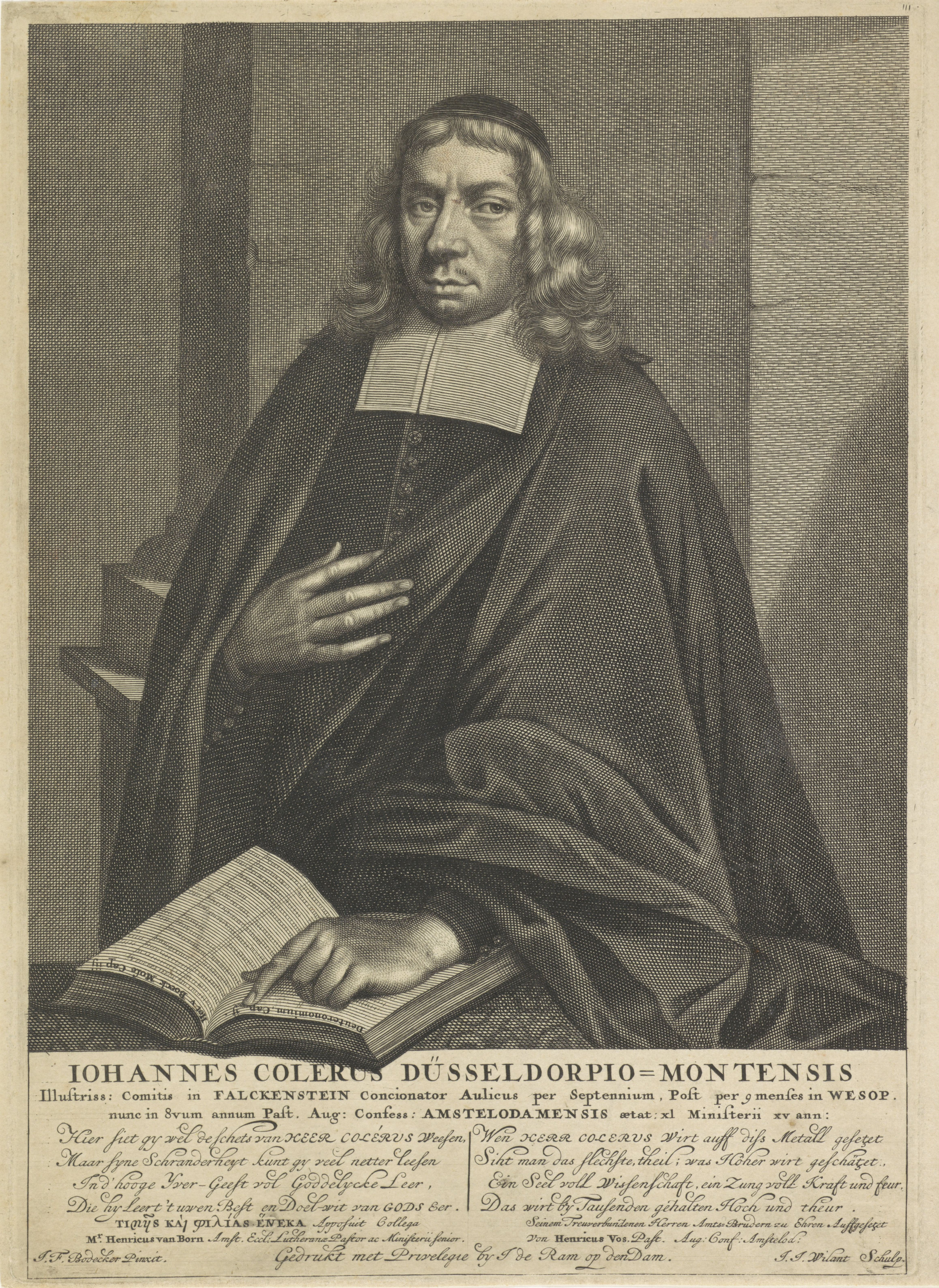 Portrait of the preacher Johannes Colerus, at the age of 40. He points to a line in an open Bible. In the margin the name of the person portrayed, and two lines of biographical data in Latin. Among them a four-line praise poem in Dutch and German. Lant, Johann Friedrich Bodecker, Henricus Vos, Henricus van Born, Reinier Ottens (I) & Josua Ottens are mentioned on the object.